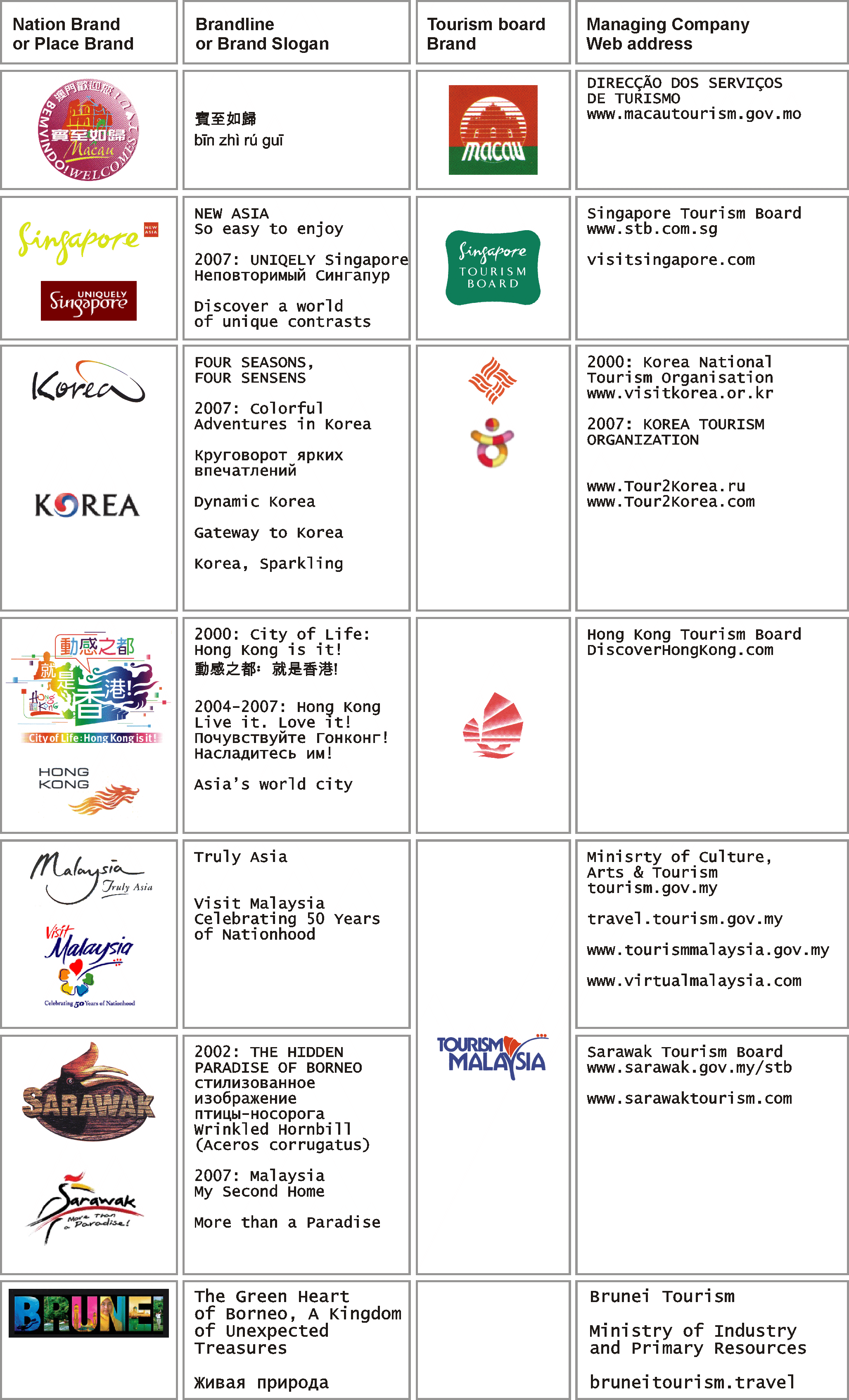 Litvinov, Nikolai. Brand strategy of Places (Part 2) // Brand Management. — 2010. — №5(54). — P. 306. For Place branding article